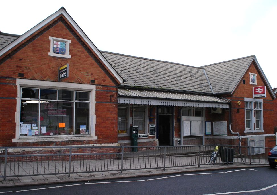 Entrance to Gipsy Hill railway station, London. I took this photo myself, and am releasing it into the public domain. Category:Images of buildings and structures Category:Images of England